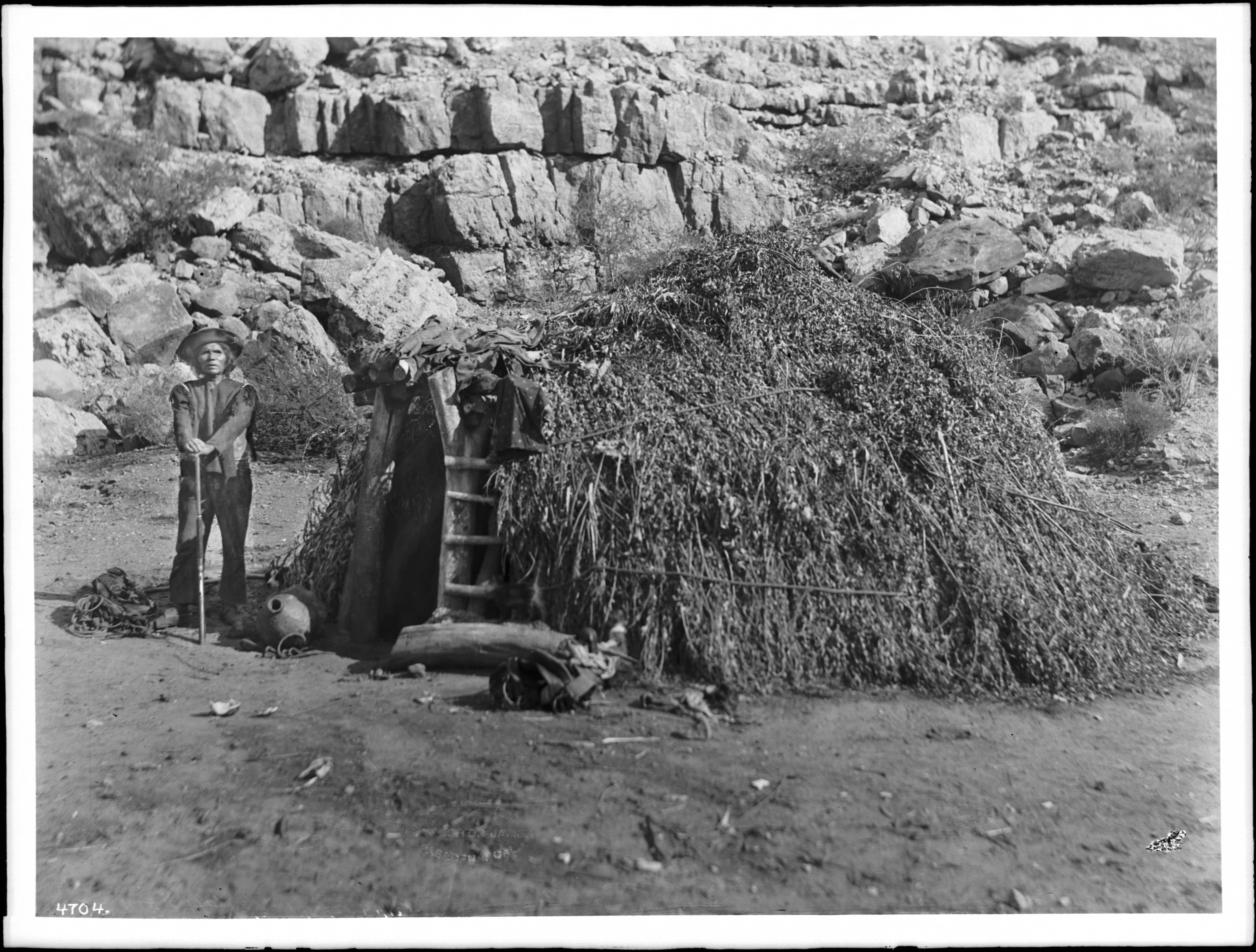 The Havasupai Indian Uta at his "hawa" (house), ca.1900 Photograph of the Havasupai Indian Uta at his "hawa" (house), ca.1900. He stands proudly next to the thatched dome-shaped dwelling holding a pole in his hands. He is wearing a long-sleeved shirt, pants, and a hat. A water jug lays at his feet near the entryway. The background is littered with large rocks and boulders. Call number: CHS-4704 Photographer: James, George Wharton Filename: CHS-4704 Coverage date: circa 1900 Part of collection: California Historical Society Collection, 1860-1960 Type: images Part of subcollection: Title Insurance and Trust, and C.C. Pierce Photography Collection, 1860-1960 Repository name: USC Libraries Special Collections Format: glass plate negatives Microfiche number: 1-167- Archival file: chs_Volume98/CHS-4704.tiff Repository address: Doheny Memorial Library, Los Angeles, CA 90089-0189 Geographic subject (country): USA Format (aacr2): 2 photographs : glass photonegative, photoprint, b&w ; 17 x 22 cm. Rights: Digitally reproduced by the USC Digital Library; From the California Historical Society Collection at the University of Southern California Subject (adlf): tribal areas Project: USC Accession number: 4704 Repository Identifying number: plate no: James-675 Contributing entity: California Historical Society Date created: circa 1900 Publisher (of the digital version): University of Southern California. Libraries Format (aat): photographic prints; photographs Legacy record ID: chs-m17018; USC-1-1-1-13517 Access conditions: Send requests to address or e-mail given. Phone (213) 821-2366; fax (213) 740-2343. Subject (file heading): Indians -- Havasupai Subject (lcsh): Indians of North America; Havasupai Indians Subject: Havasupai Indians; Uta